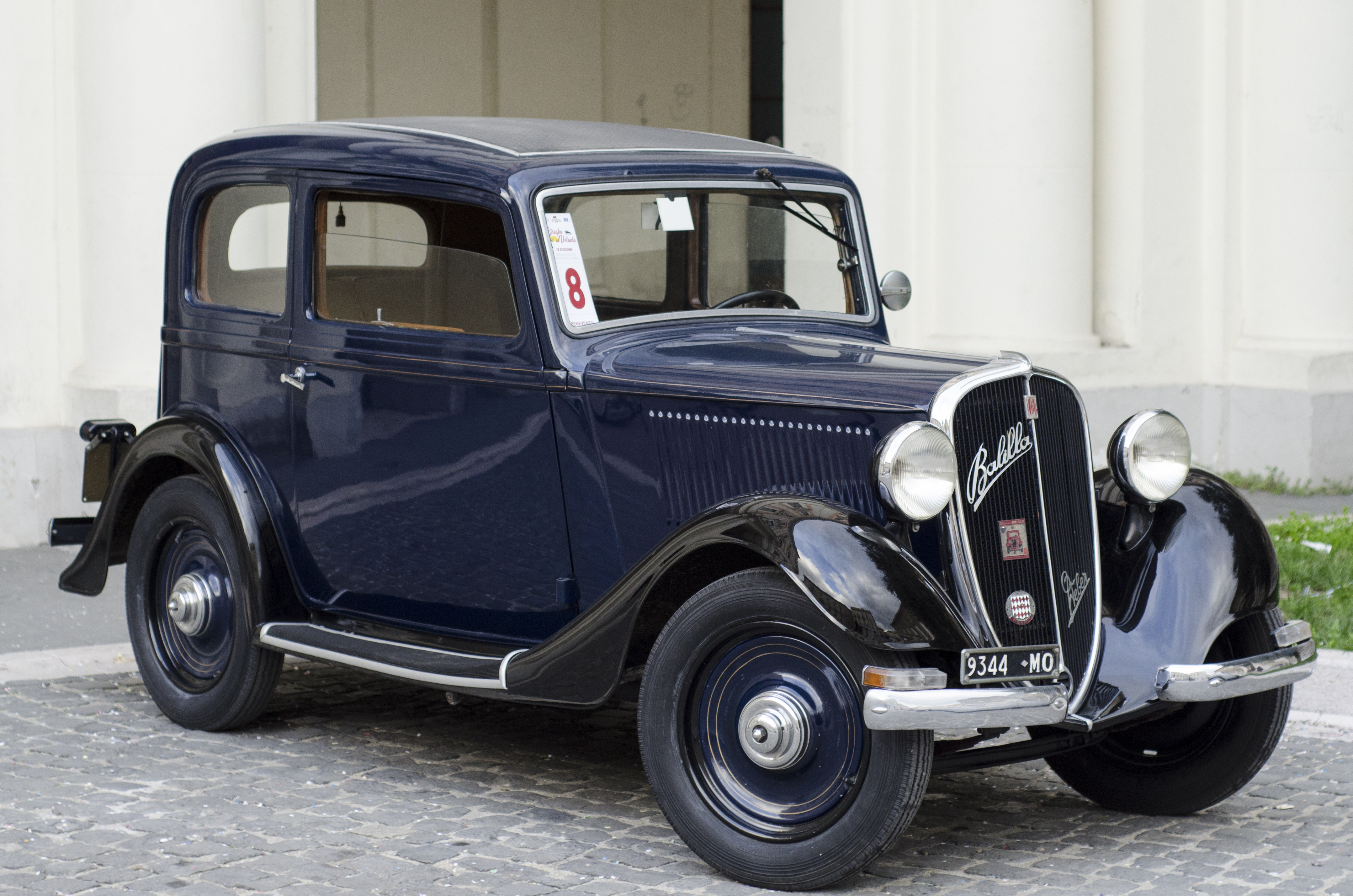 Fiat Balilla